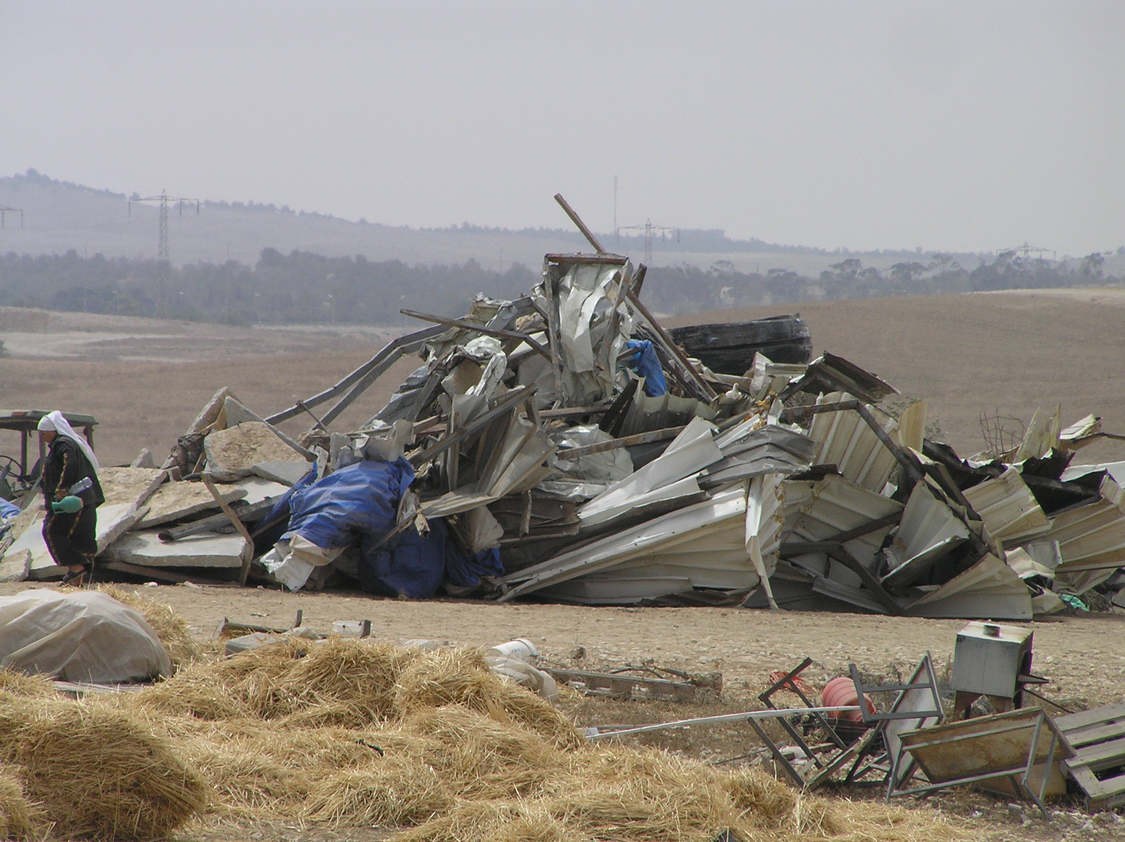 A demolished house in the unrecognized Bedouin village of Al-Araqeeb, few days after all the houses of the village were demolished by Israeli law enforcements.